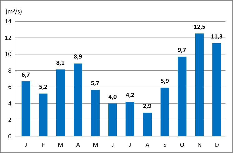 Average monthly discharges of Selška Sora River at the gauging station Vešter in 1991–2010